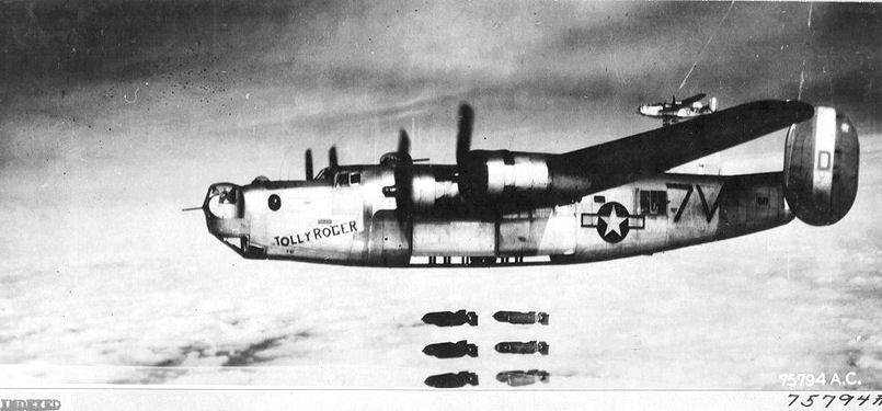 "Jolly Roger" B-24J-165-CO Liberator s/n 44-40475 752nd Bomb Squadron, 458th Bomb Group, 8th Air Force. On thwe bomb run over Bielfeld,Germany on Feb. 24,1945.